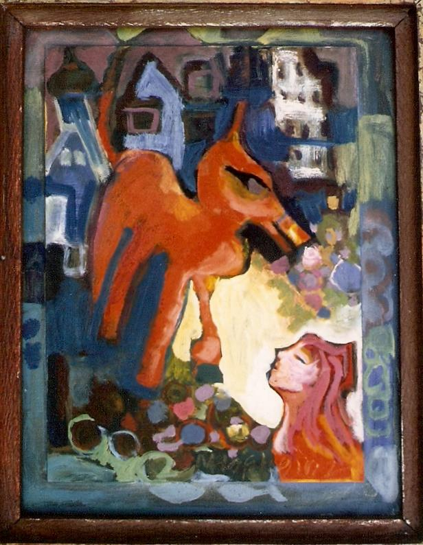 The Animal, oil painting, 25x30 cm, 1966 (WV-Nr.1268), by Margret Hofheinz-Döring